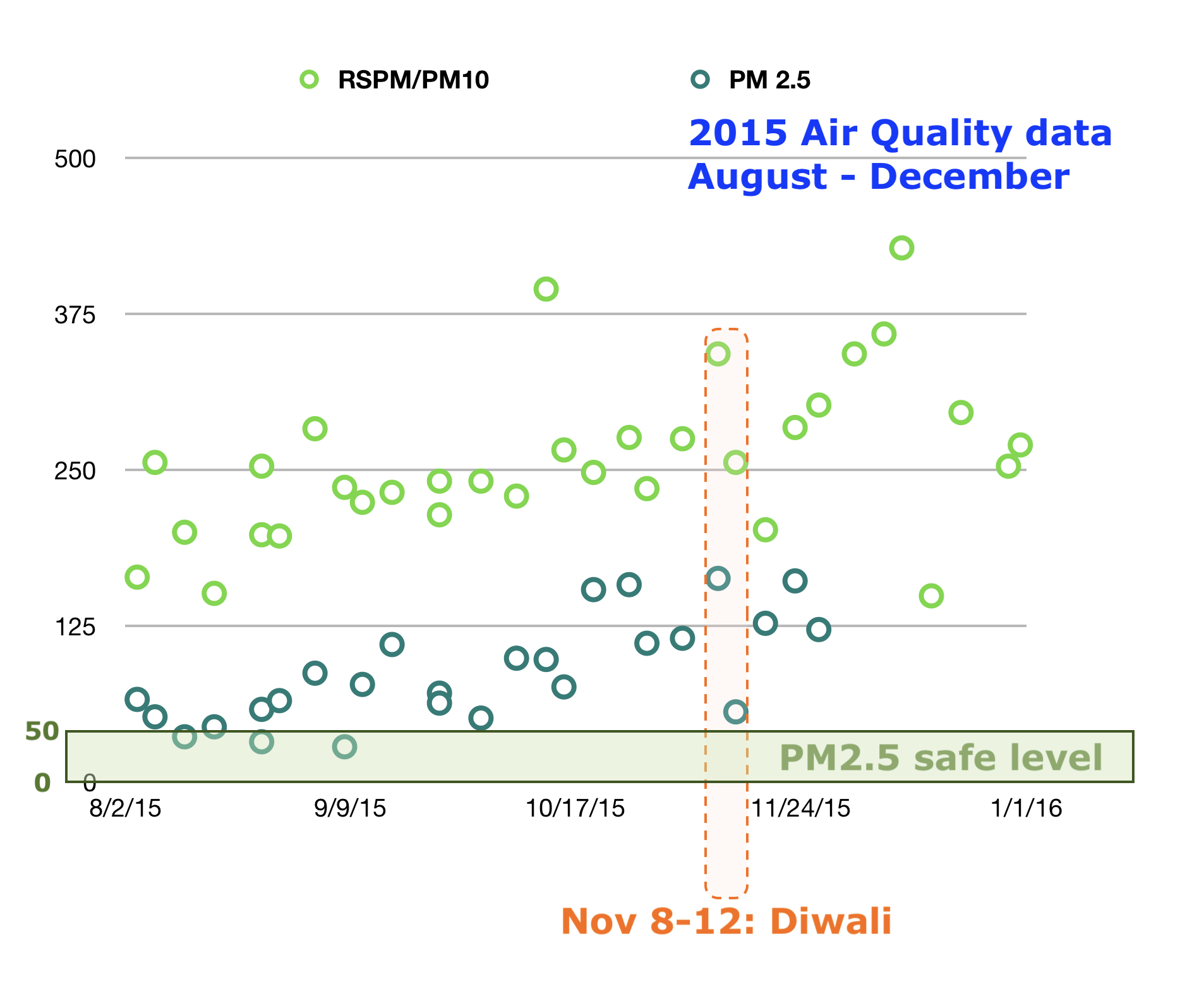 Air quality data for Delhi in 2015, from August 1 to December 31. X-axis: dates Y-axis: light green is PM10 data; dark green is PM2.5 data; all measured in Delhi. Sources: [1] Location wise daily Ambient Air Quality of Delhi for the year 2015, A.B. Akolkar, Ministry of Environment and Forests, Central Pollution Control Board, Government of India (2018); [2] The safety threshold data is based on Air Quality Data standards, U.S. Embassy & Consulates in India. Diwali has been proposed as a possible contributor to air pollution because it is celebrated using firecrackers. In 2015, the main Diwali was observed on November 11, the 5-day festival was over November 9 to 13 (orange). The data suggest that the air quality was unhealthy many weeks before and after the festival. Other causes of poor air quality in Delhi include the seasonable burning of crop stocks in neighboring regions such as Punjab, Haryana and Uttar Pradesh, as well as the inefficient combustion of cow dung cakes and waste as cooking fuel.